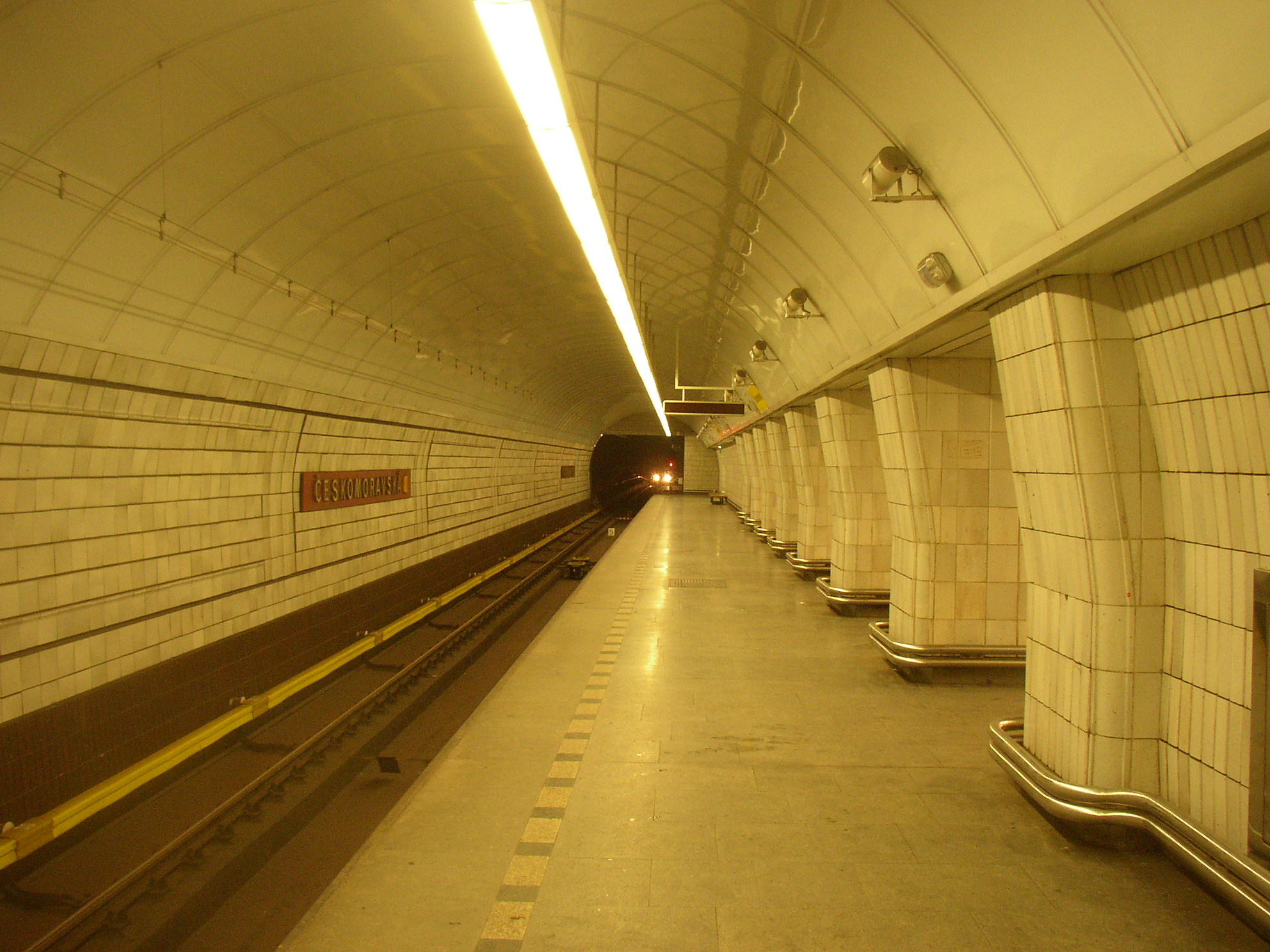 Českomoravská metro station in Prague, Czech Republic.